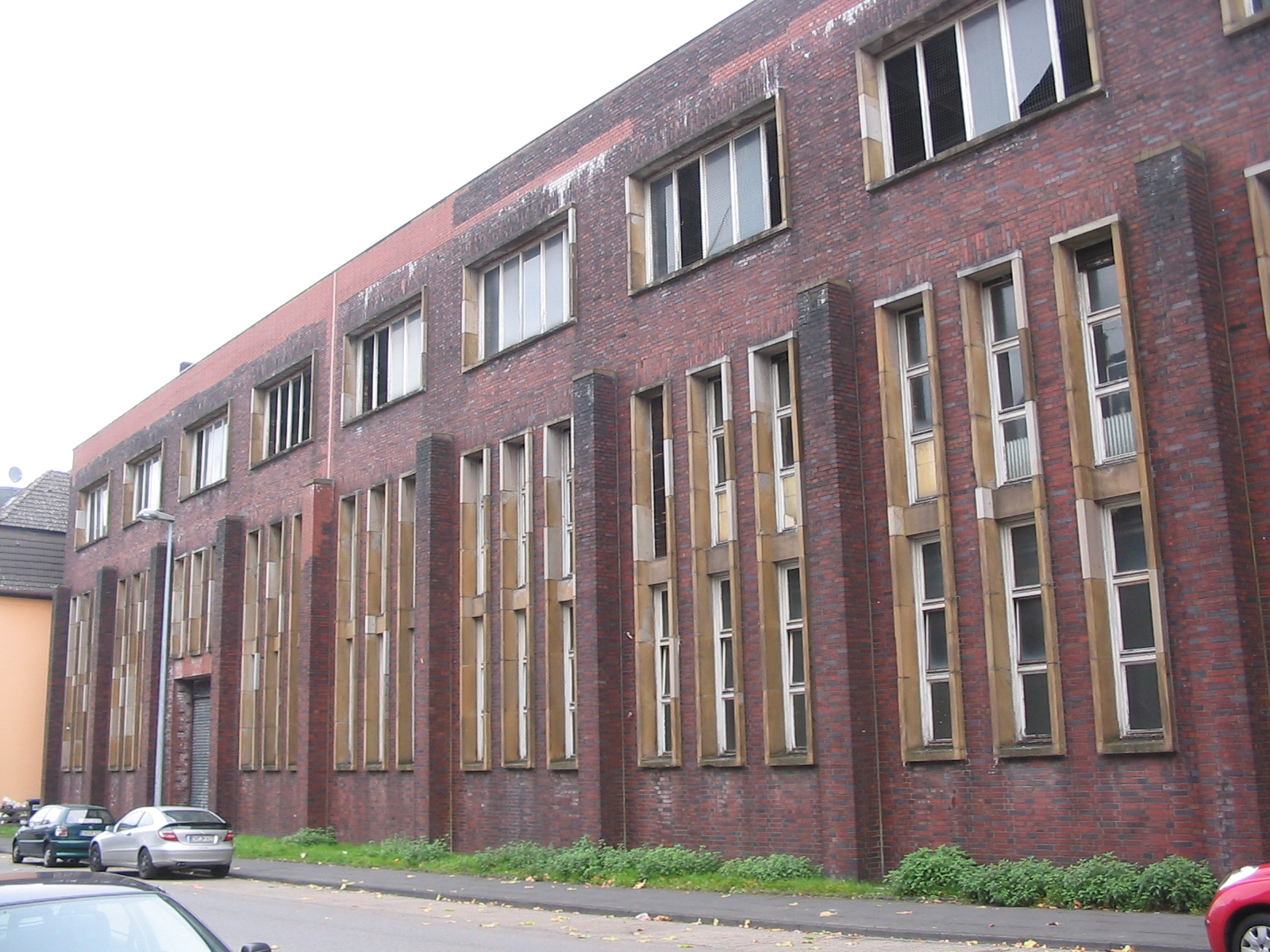 hall former Glühofenhalle at Wittener Industrie- und Technologie-Park